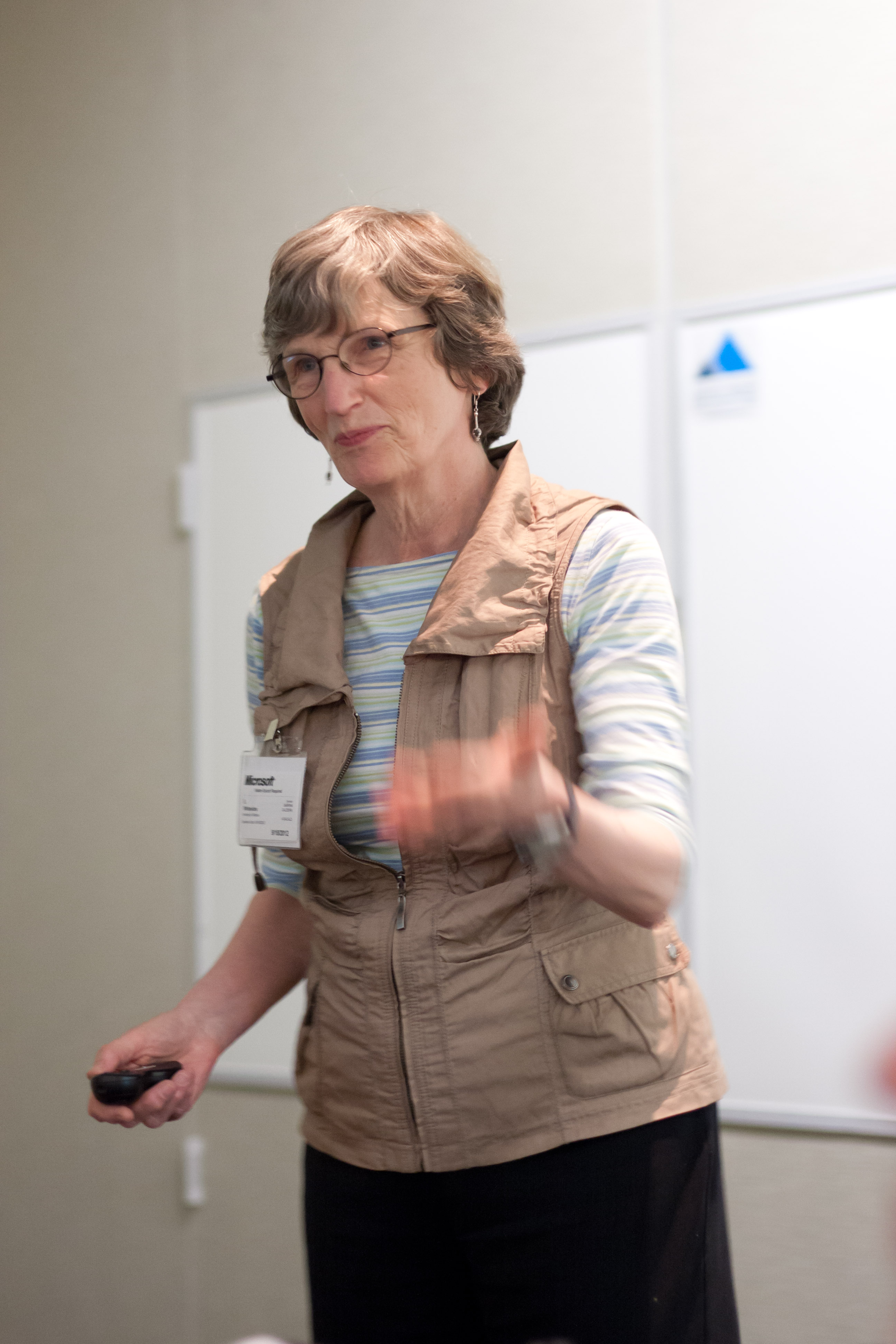 Sue Whitesides at the Workshop on Theory and Practice of Graph Drawing, Redmond, Washington, September 18, 2012